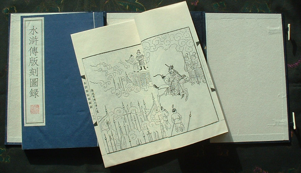 Description: the Chinese novel Shuihuzhuan (水浒传 Shuǐhǔ Zhuàn) Source: own photography Date: November 2005 Author: --Immanuel Giel 15:24, 17 November 2005 (UTC) Other versions: none